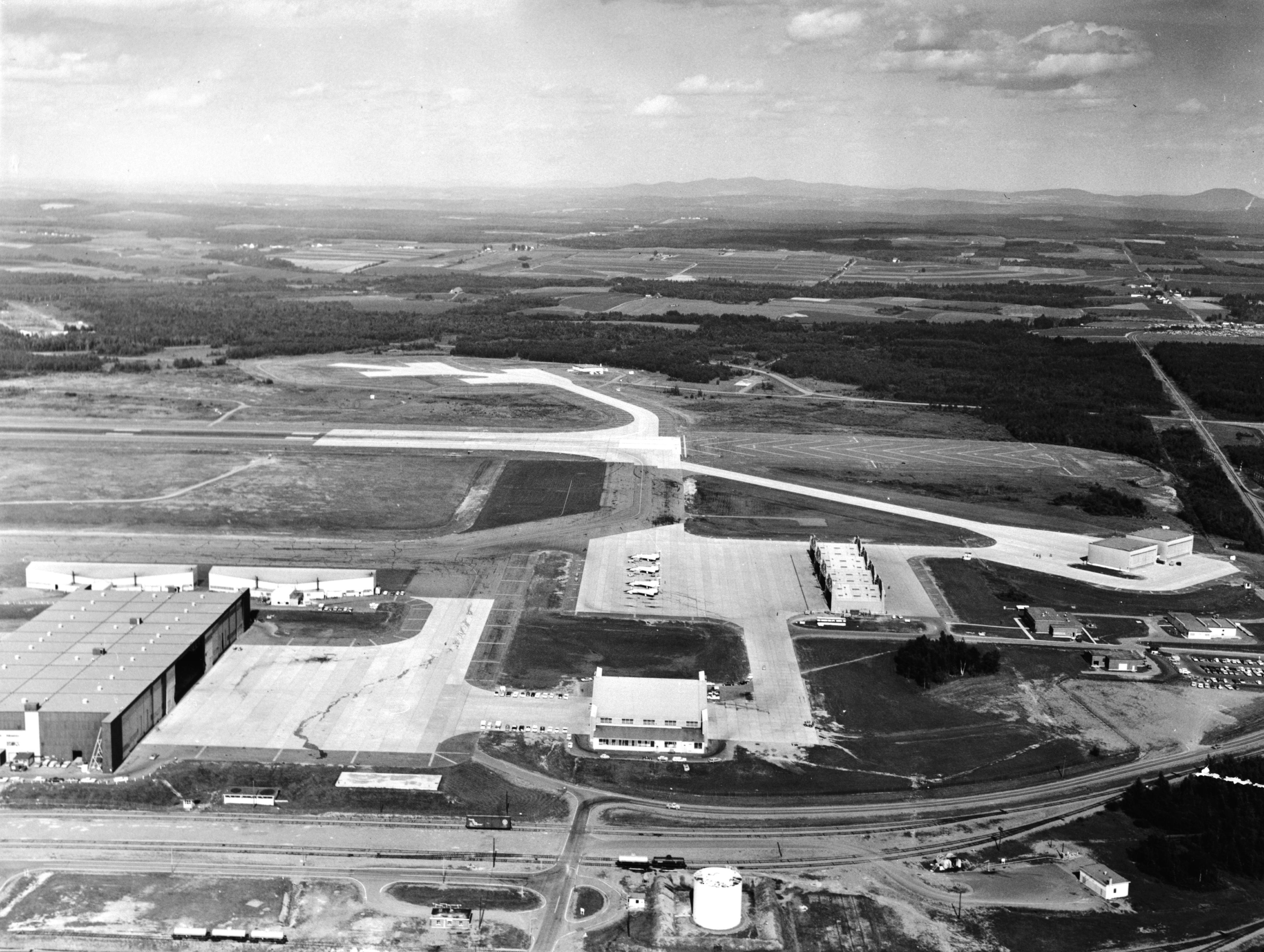 Loring Air Force Base, Maine This photo is taken from the Library of Congress archives. Aerial photograph of Flightline showing Building 8280 (Double Cantilever Hangar) at left. Photo dated January 18, 1968. HAER ME,2-LIME.V,1A--10